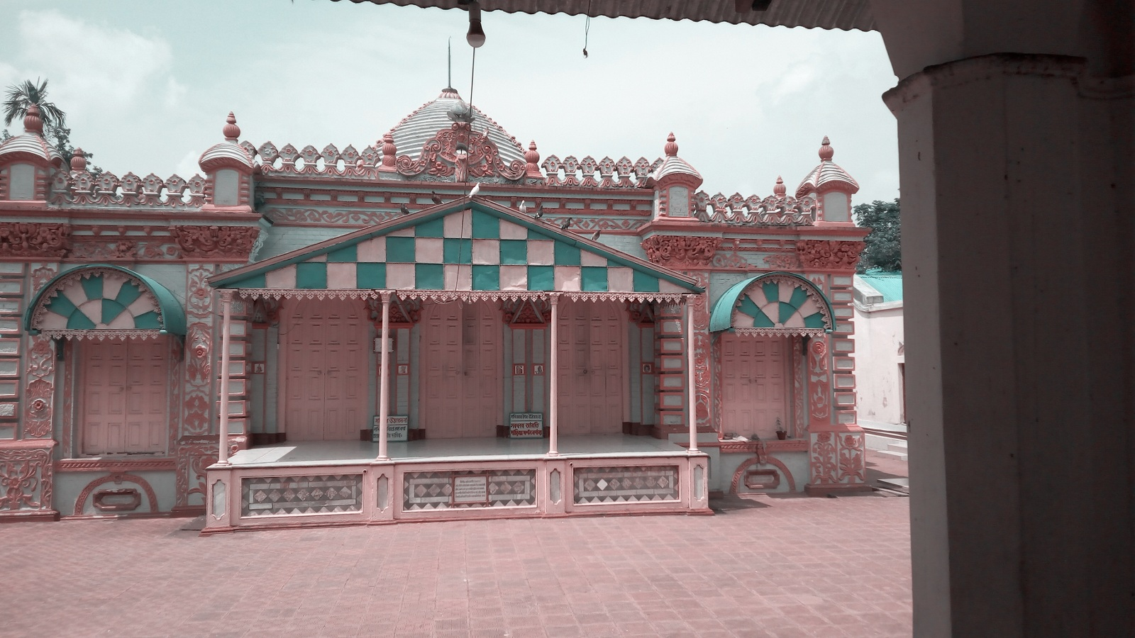 Dinajpur Rajbari